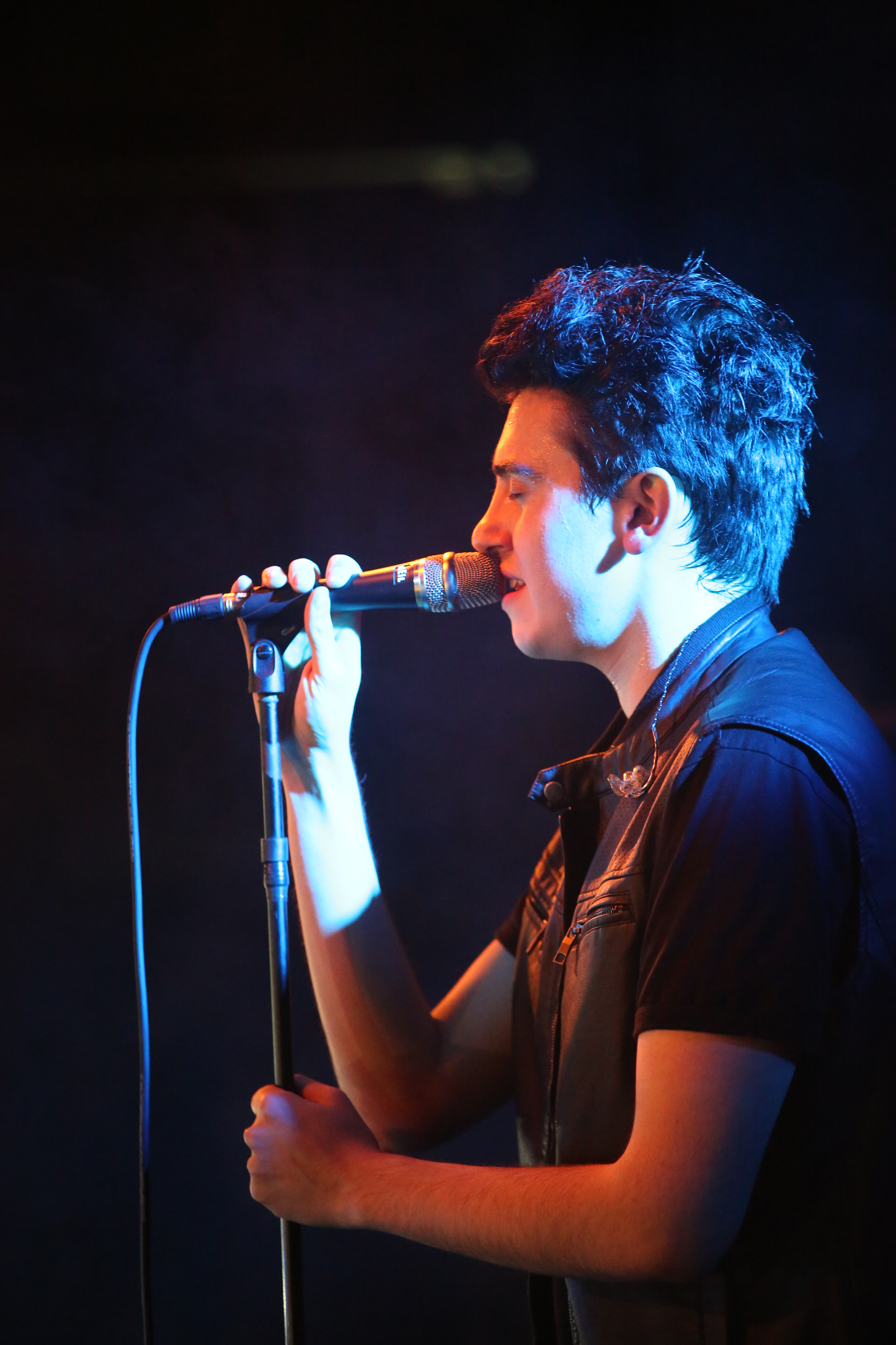 Michele Bravi live at New Age Club in Roncade on the 13th March, 2016